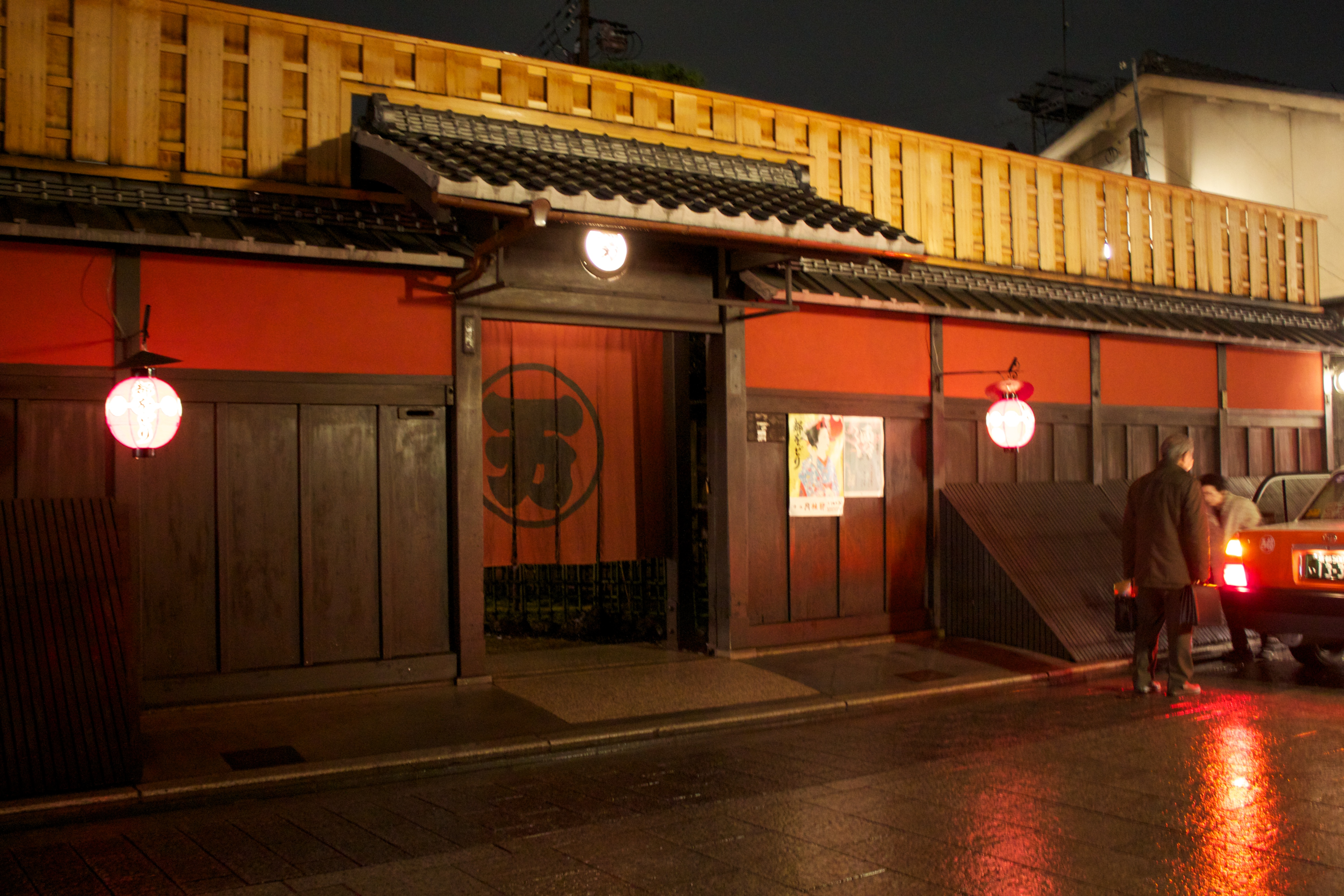 The entrance to the famous Ichiriki ochaya (restaurant)